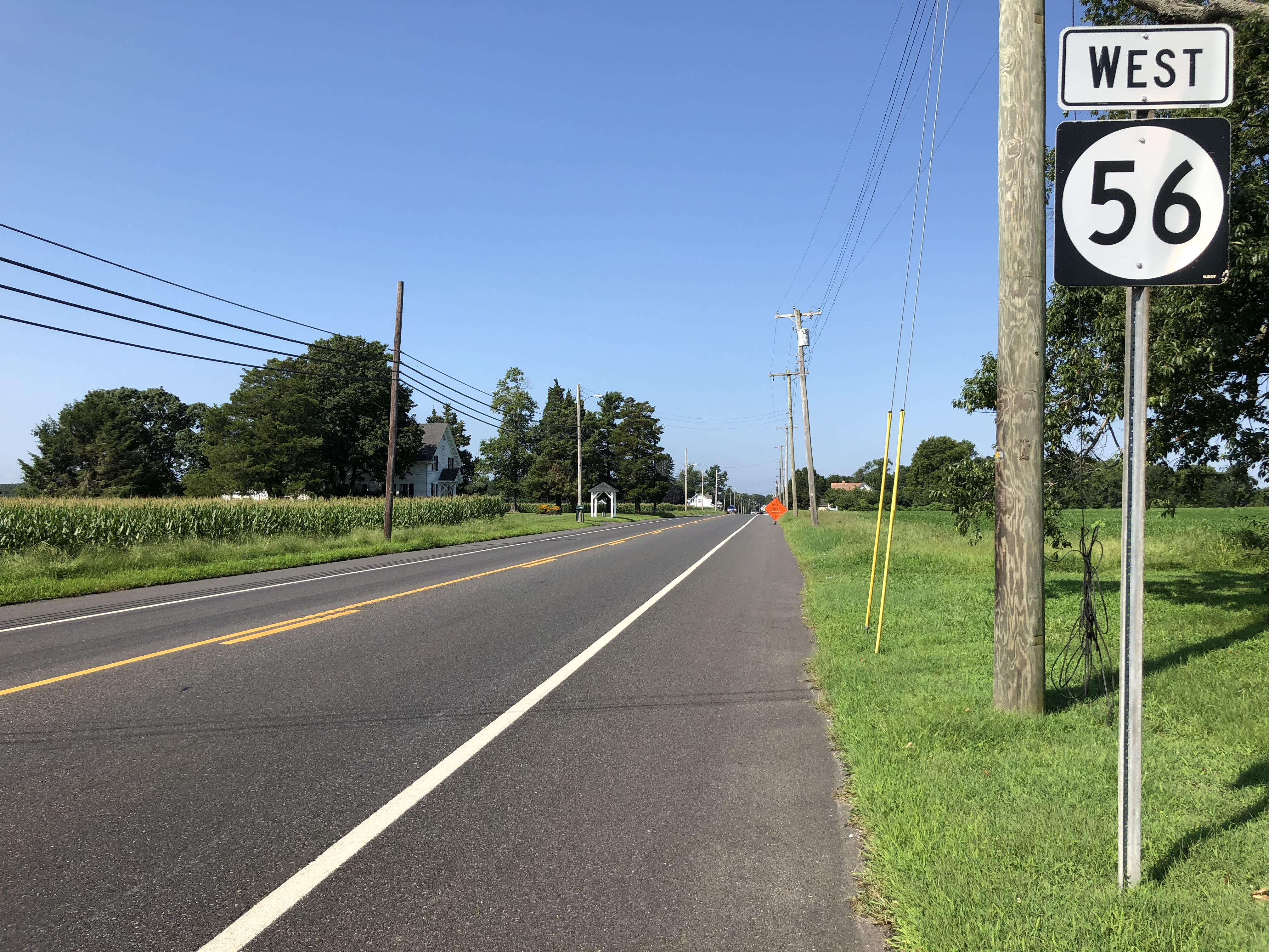 View west along New Jersey State Route 56 (Vineland-Bridgeton Pike/Landis Avenue) at Cumberland County Route 553 (Woodruff Road/Finley Road) in Upper Deerfield Township, Cumberland County, New Jersey